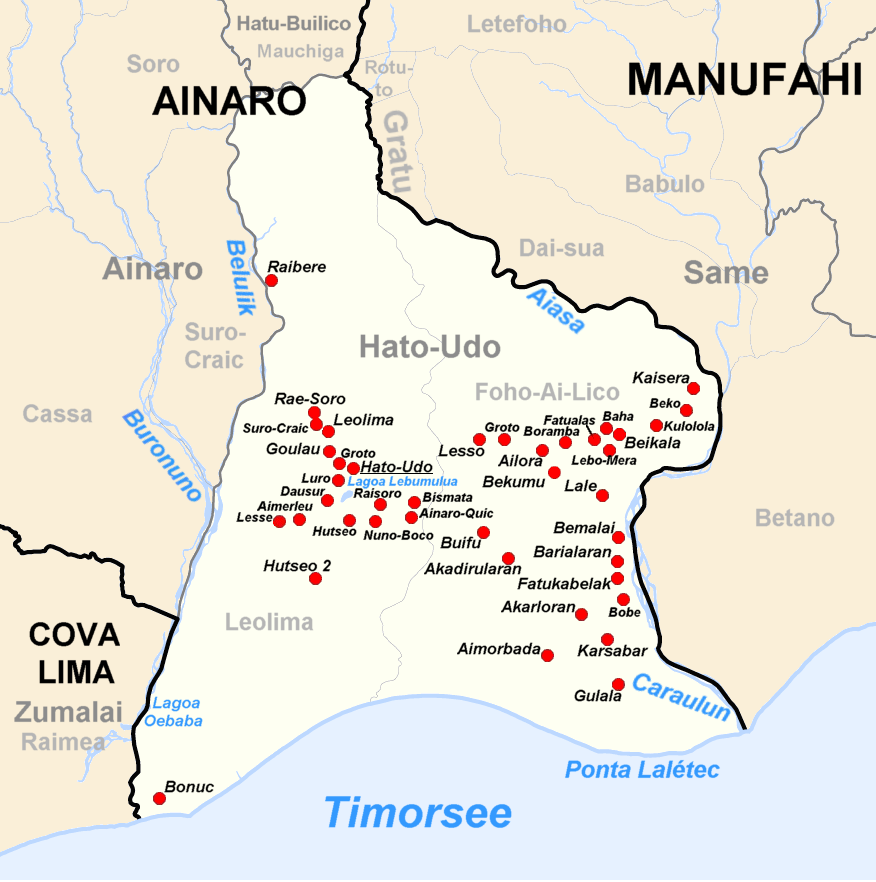 The administrative post of Hato-Udo, municipality Ainaro, East Timor